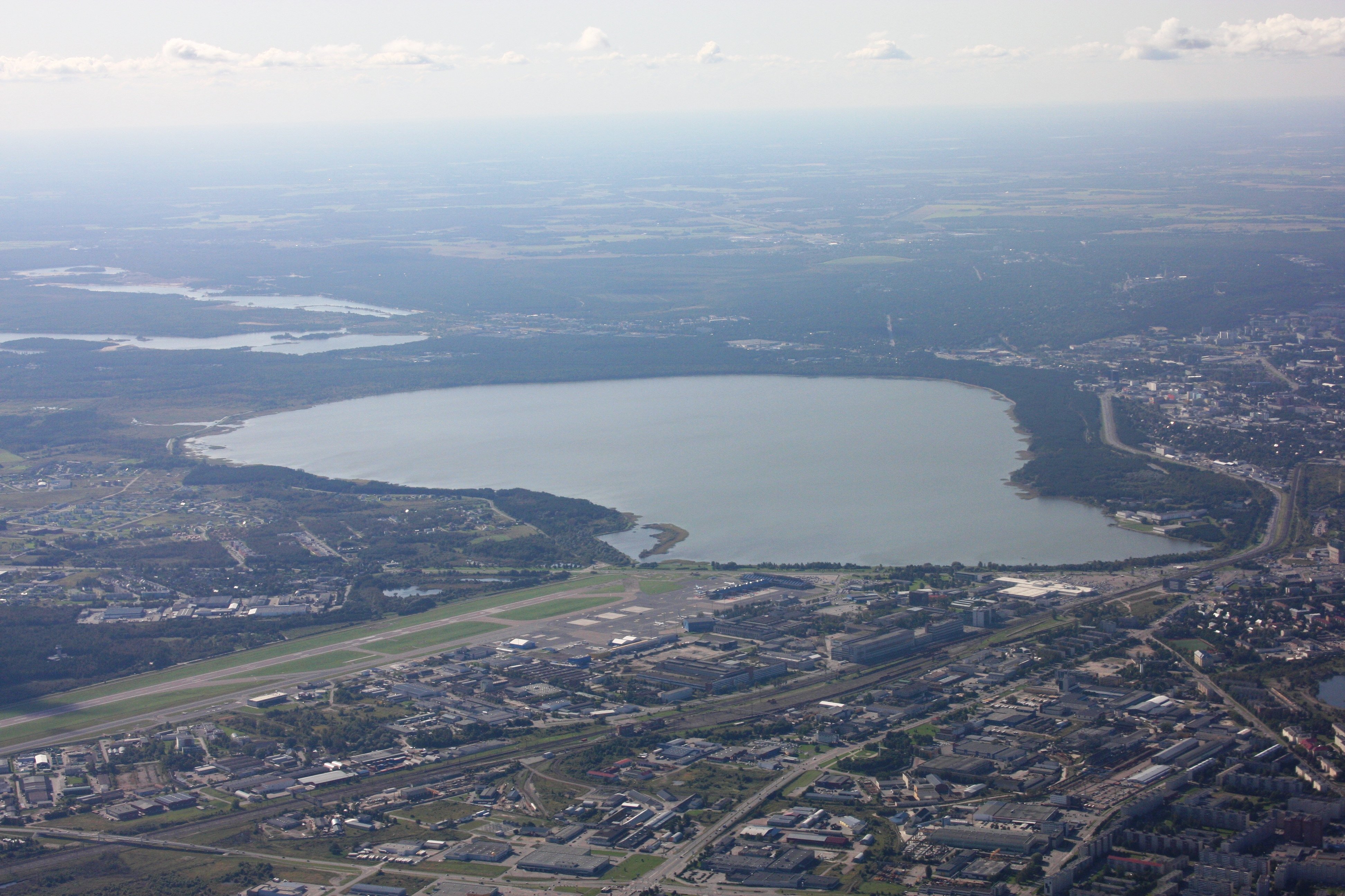 Lake Ülemiste, just south of Tallinn, Estonia. To the left is Tallinn airport.